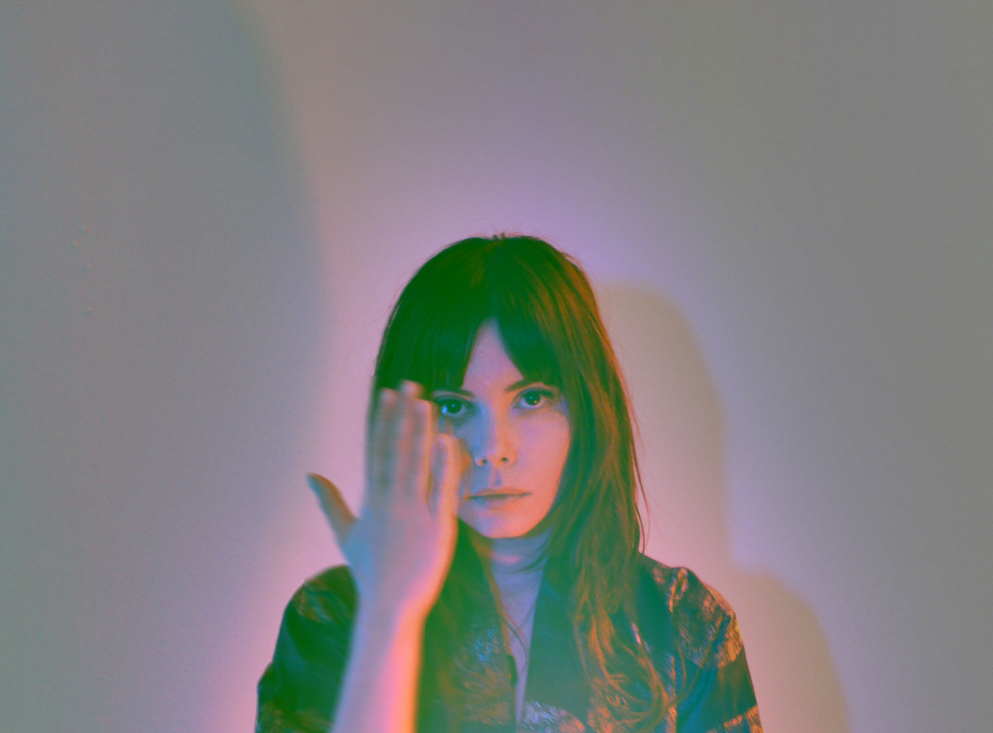 Feathers 2014 press photo.